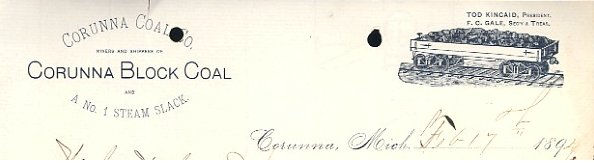 Corunna Coal Company letterhead